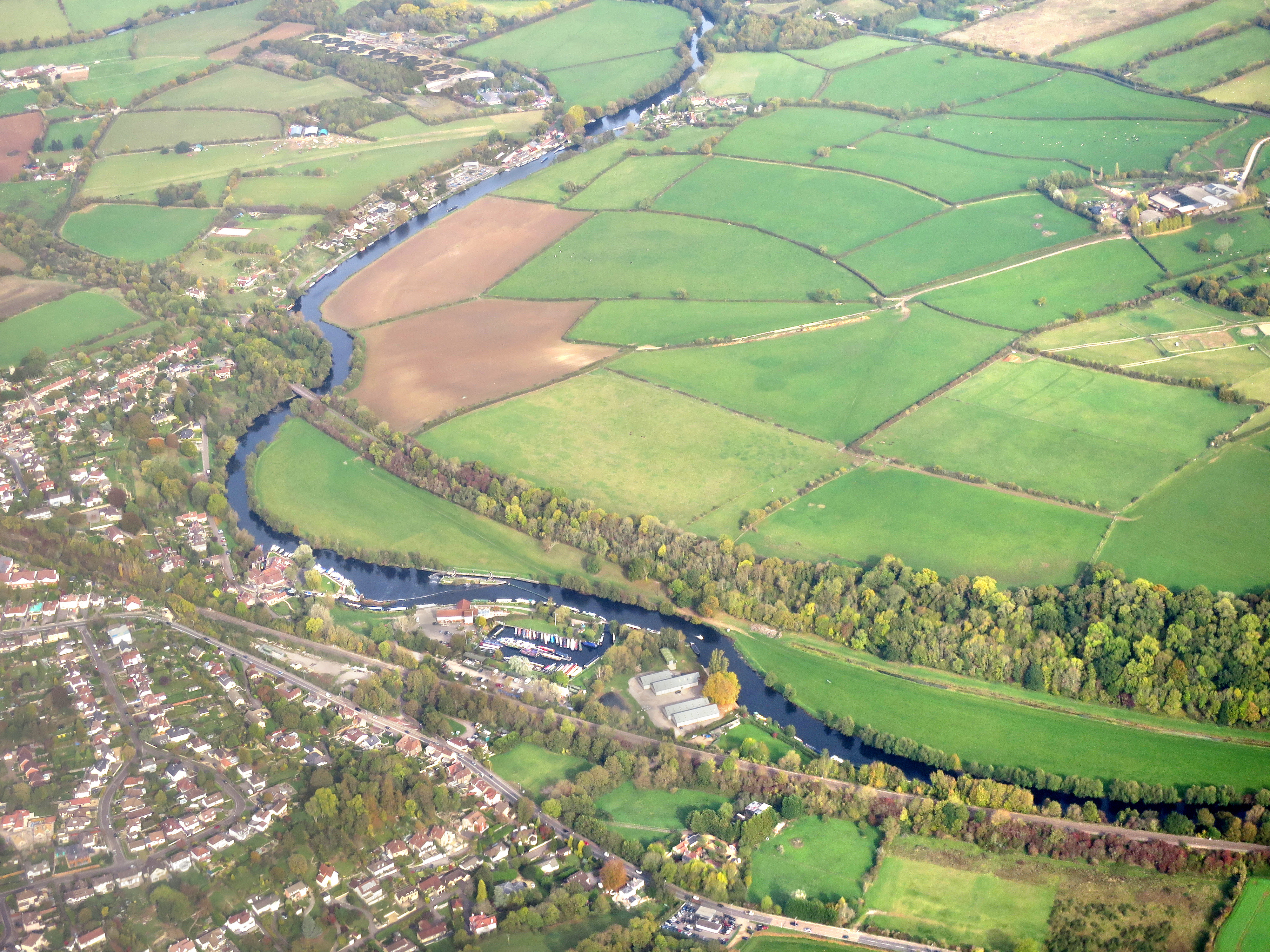 An aerial view of the river Avon where it passes the village of Saltford near Bath in the UK.